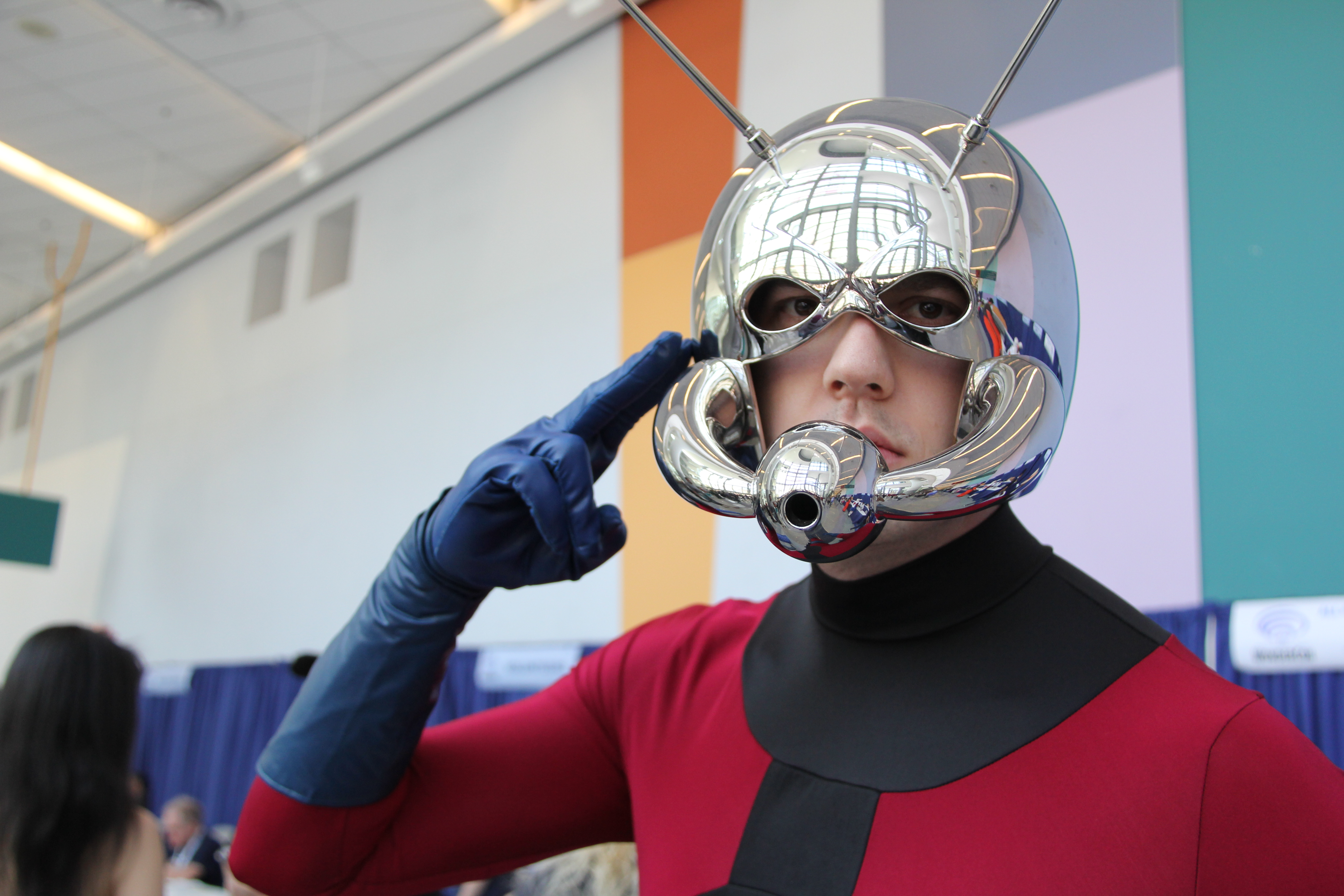 Cosplay comic character